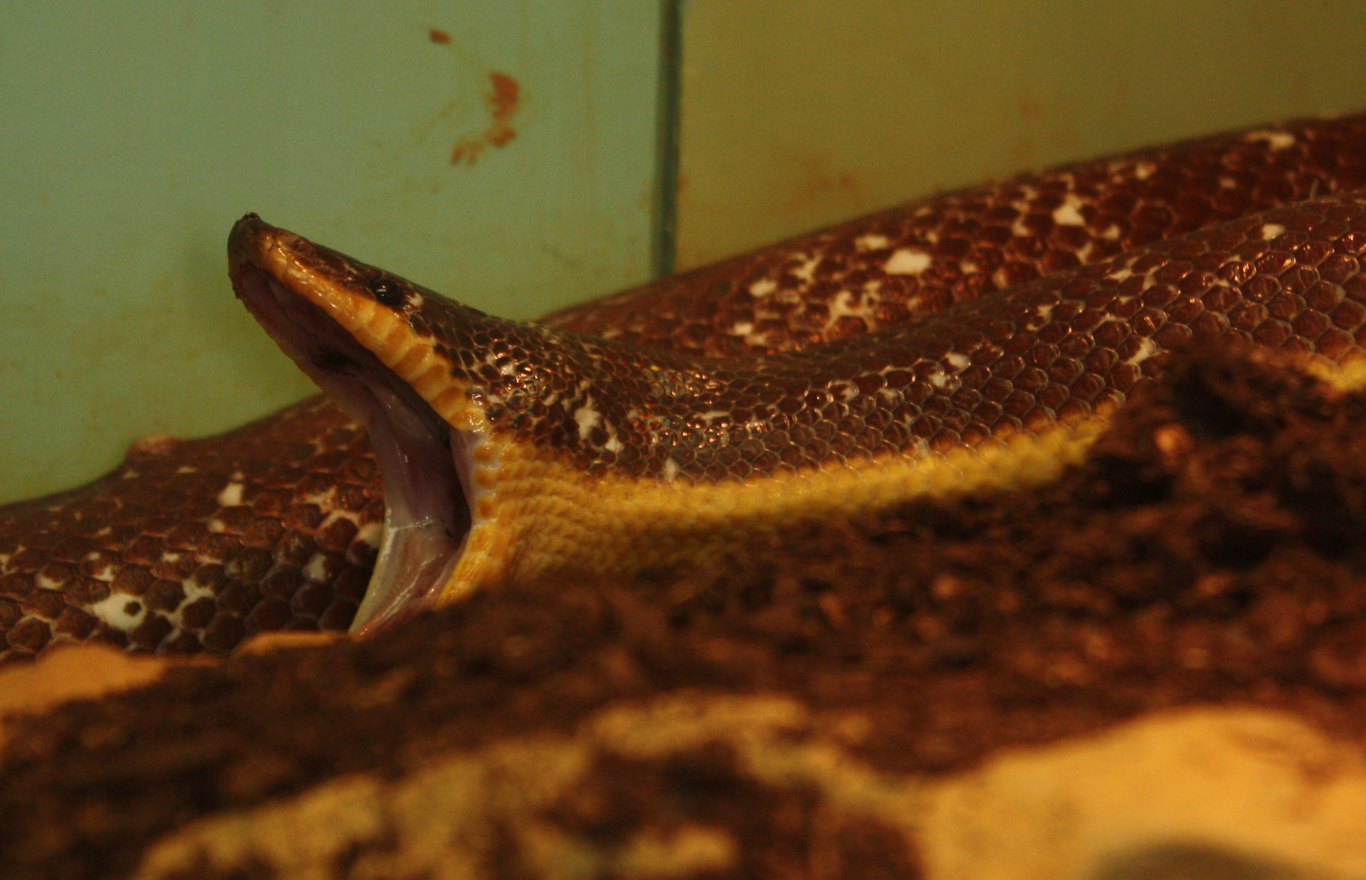 Mexican Burrowing Python Loxocemus bicolor at the Louisville Zoo